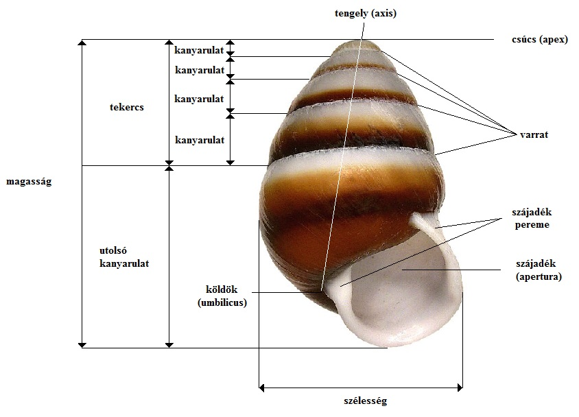 Parts of a gastropod shell - in Hungarian Species: Canistrum stabile